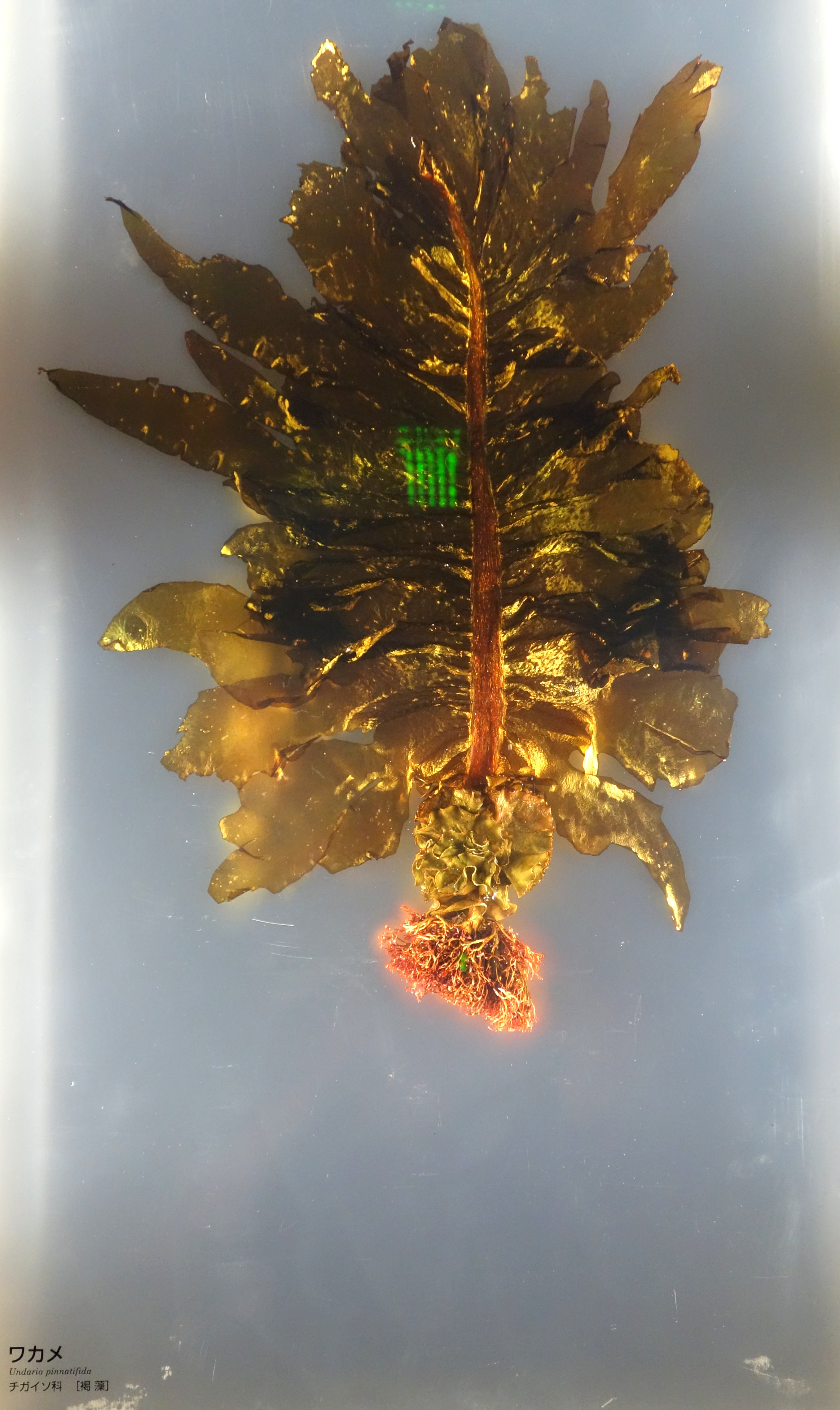 Exhibit in the National Museum of Nature and Science, Tokyo, Japan.